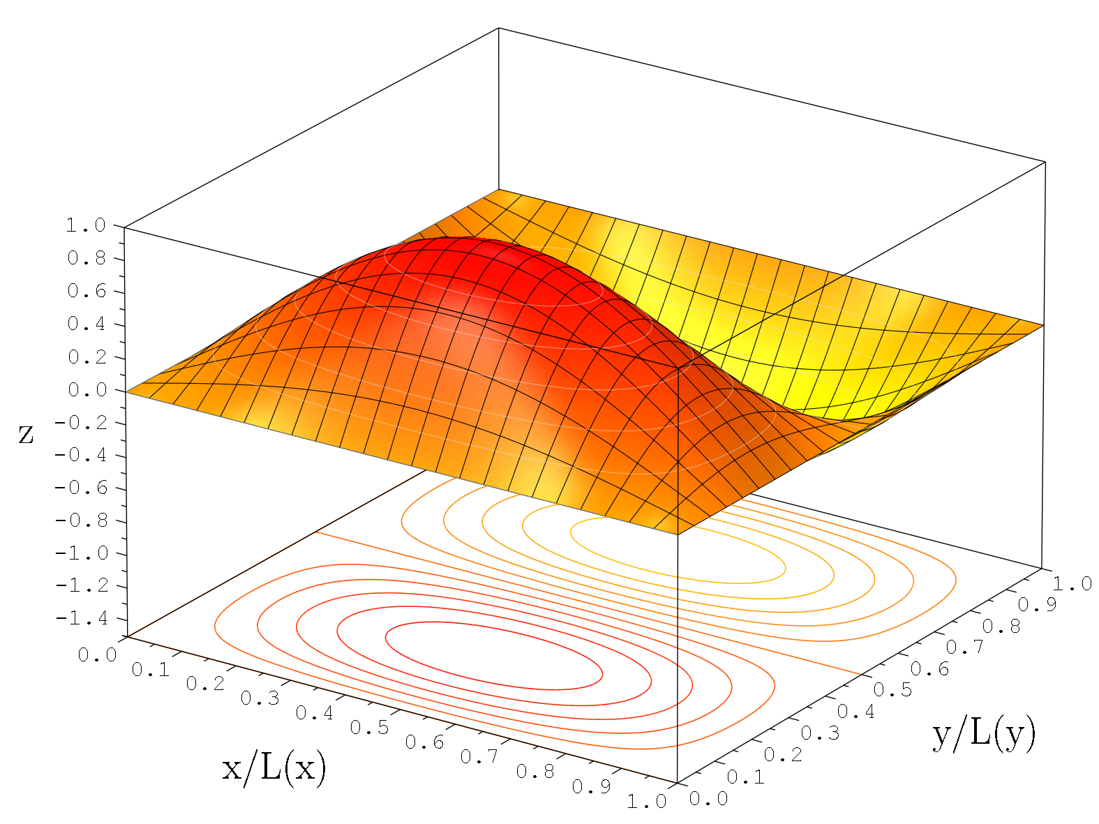 The quantum wavefunction of a particle in a 2D box of dimensions Lx and Ly. The wavenumbers are: nx=1 ny=2